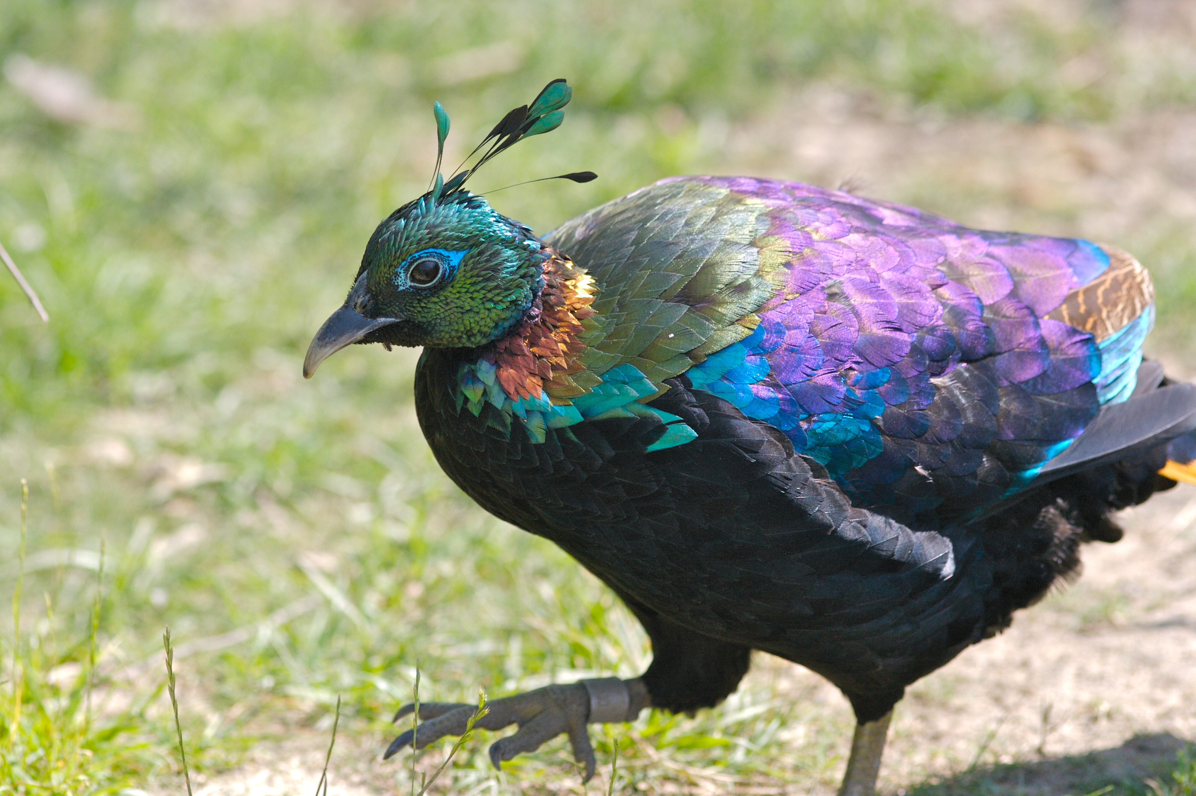 Himalayan Monal Pheasant (Lophophorus impejanus) in Columbus Zoo